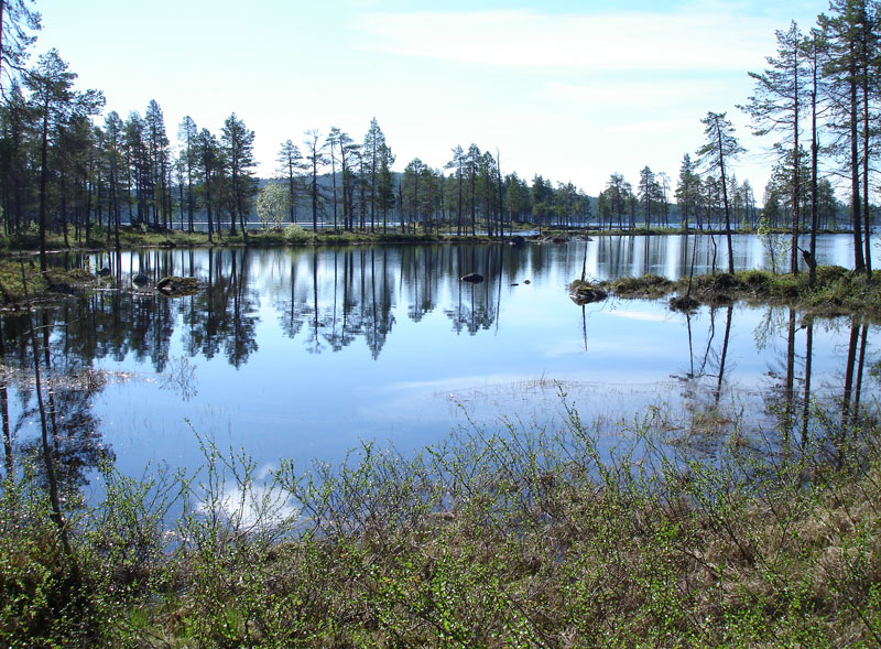 Lake Munkajávrre (Munkajaure) in Tjieggelvas nature reserve, Norrbotten county, Sweden.